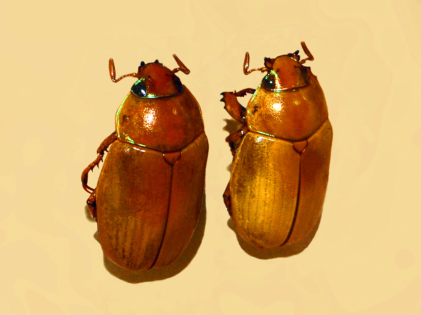 Pelidnota virescens from Guatemala